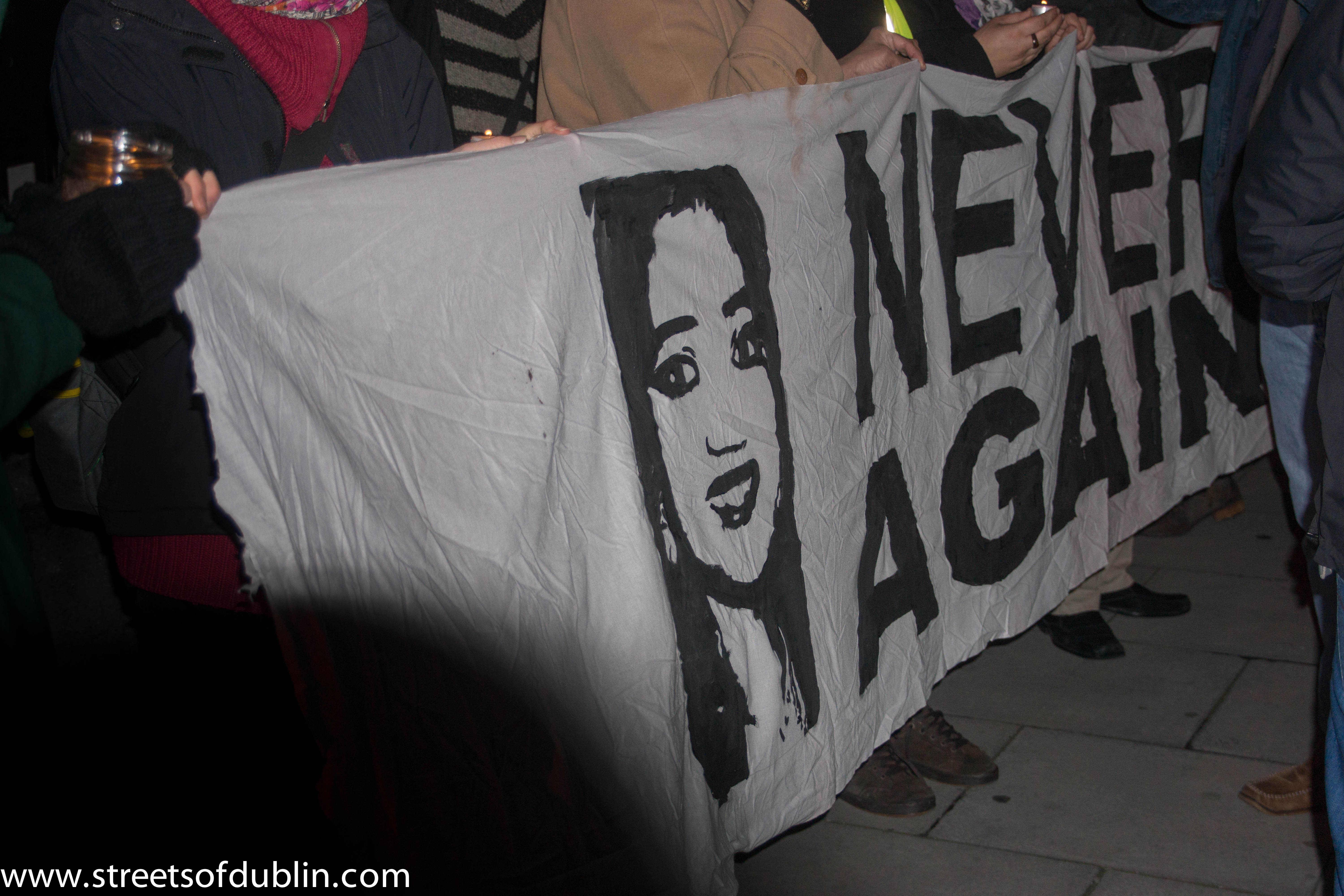 Campaigners in Scotland staged a protest in support of greater access to abortions for women in Ireland. The Edinburgh protest coincided with similar events in Dublin and across the world. Since the death of Mrs Halappanavar, the Irish Government has come under great pressure to reform the country's complex abortion laws. Minister for Health James Reilly has indicated that the HSE inquiry into Savita Halappanavar's death is proceeding, despite a decision by her husband not to cooperate with it.